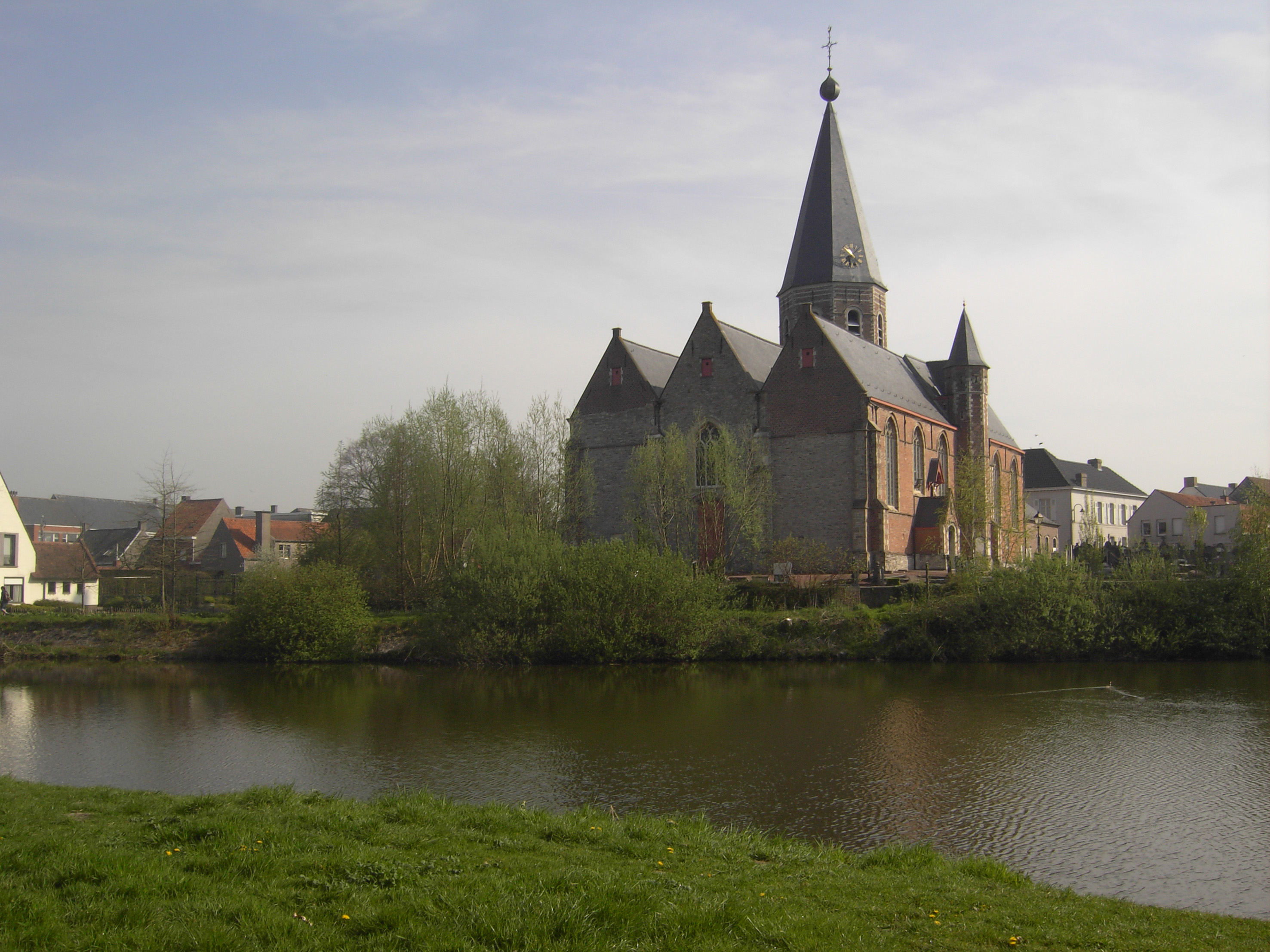 Church of Saint Michael, Saint Cornelius and Saint Ghislenus in Machelen. Machelen, Zulte, East Flanders, Belgium